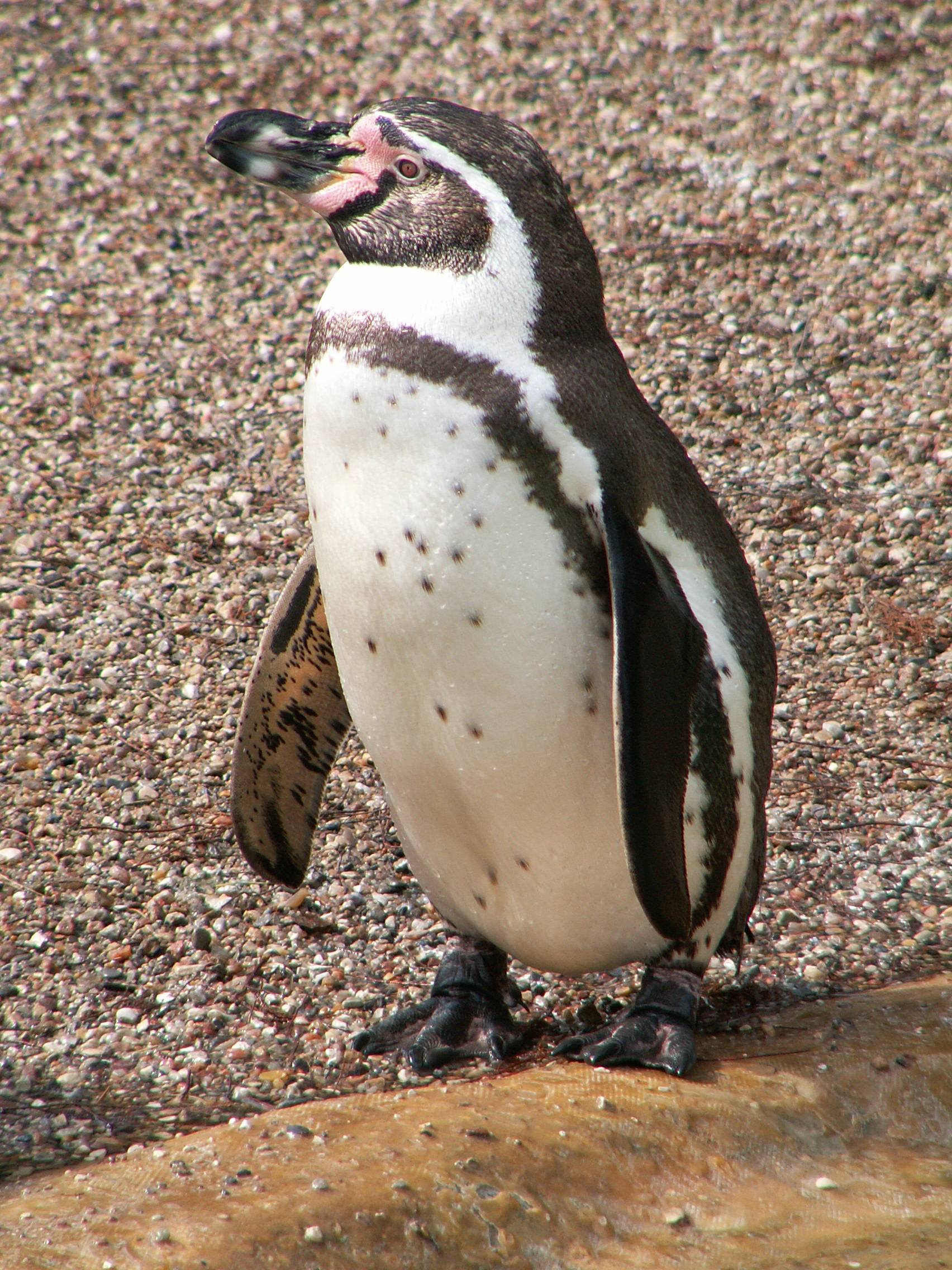 Humboldt Penguin in Tierpark Hagenbeck.